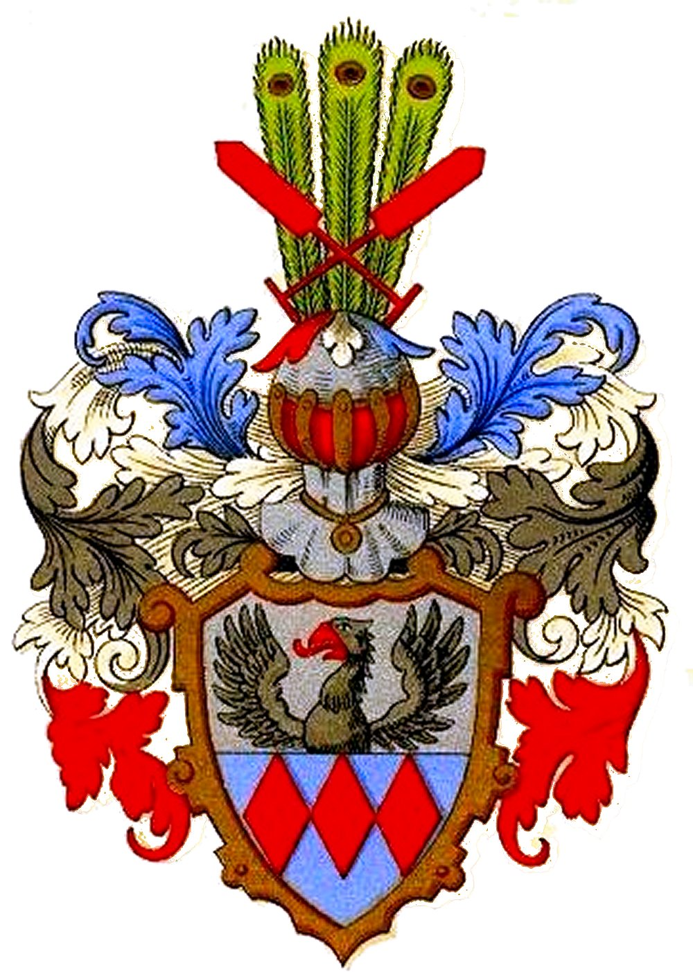 Coat of arms of the Normann noble family